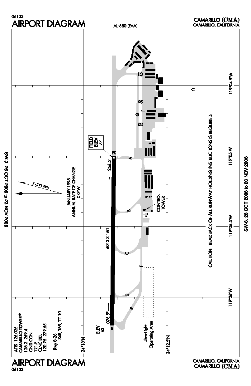 FAA airport diagram for CMA (Camarillo Airport) in California, United States. (outdated)